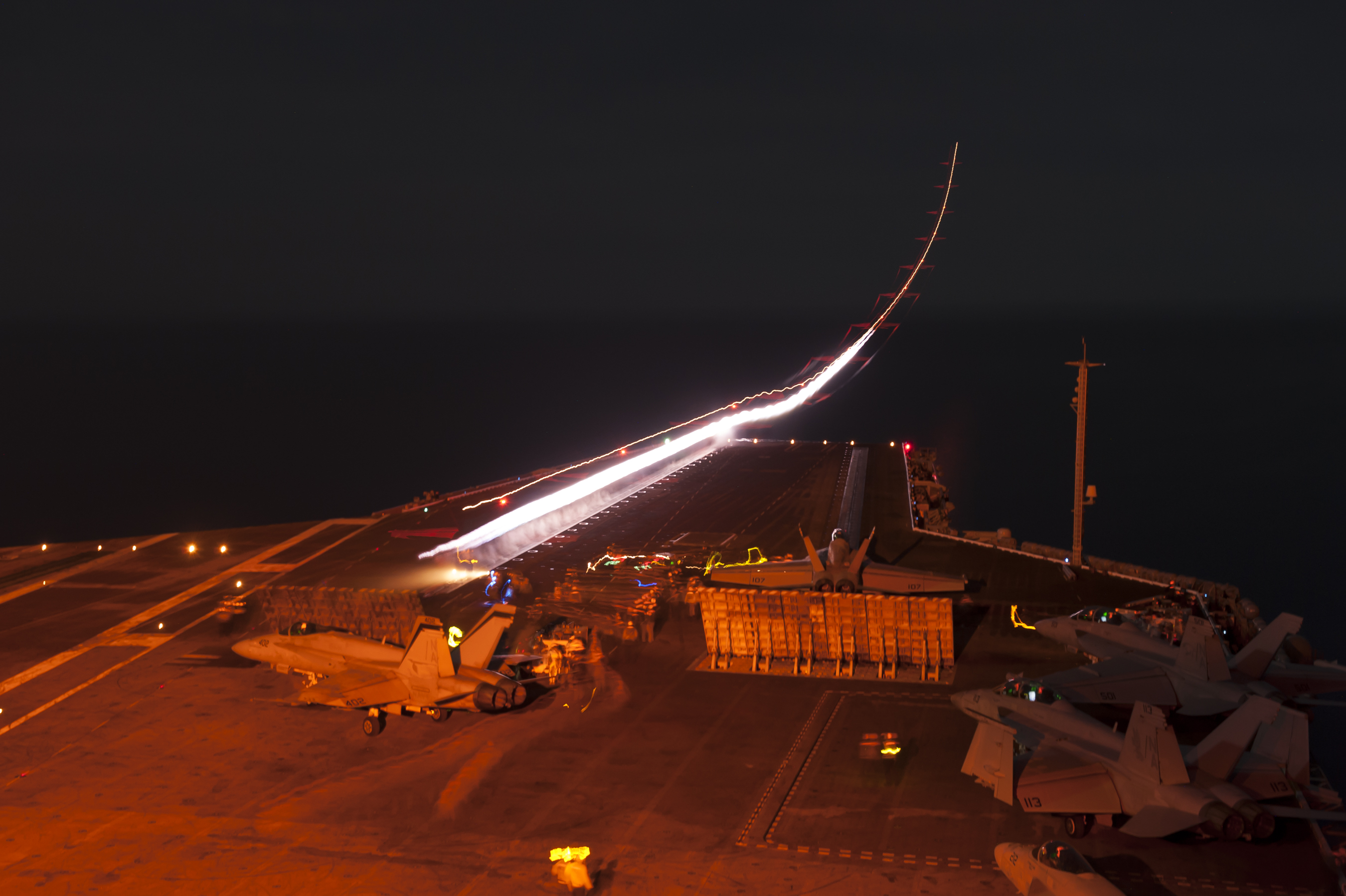 PACIFIC OCEAN (Jan. 18, 2014) An F/A-18E Super Hornet assigned to the Sunliners of Strike Fighter Squadron (VFA) 81 launches from the aircraft carrier USS Carl Vinson (CVN 70). Carl Vinson is underway conducting a tailored ship’s training availability off the coast of Southern California. (U.S. Navy photo by Mass Communication Specialist 2nd Class George M. Bell/Released) 140118-N-ZI635-025 Join the conversation navylive.dodlive.mil